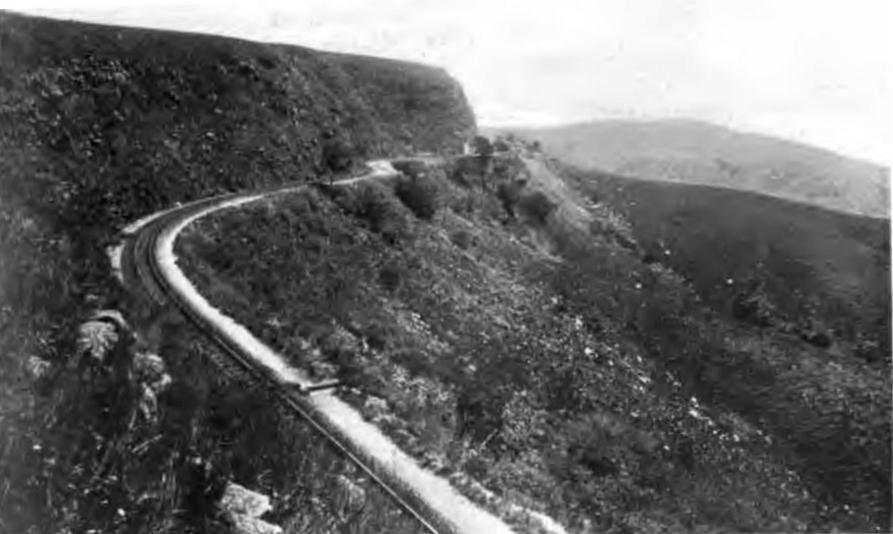 View of the first railway line between Durban and Pietermartizburg taken near Botha's Hill